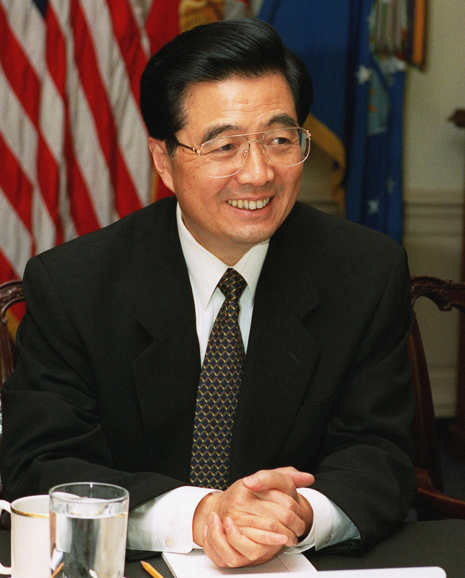 People's Republic of China President, Hu Jintao, pictured during a defense meeting held at the Pentagon in Washington, District of Columbia (DC).